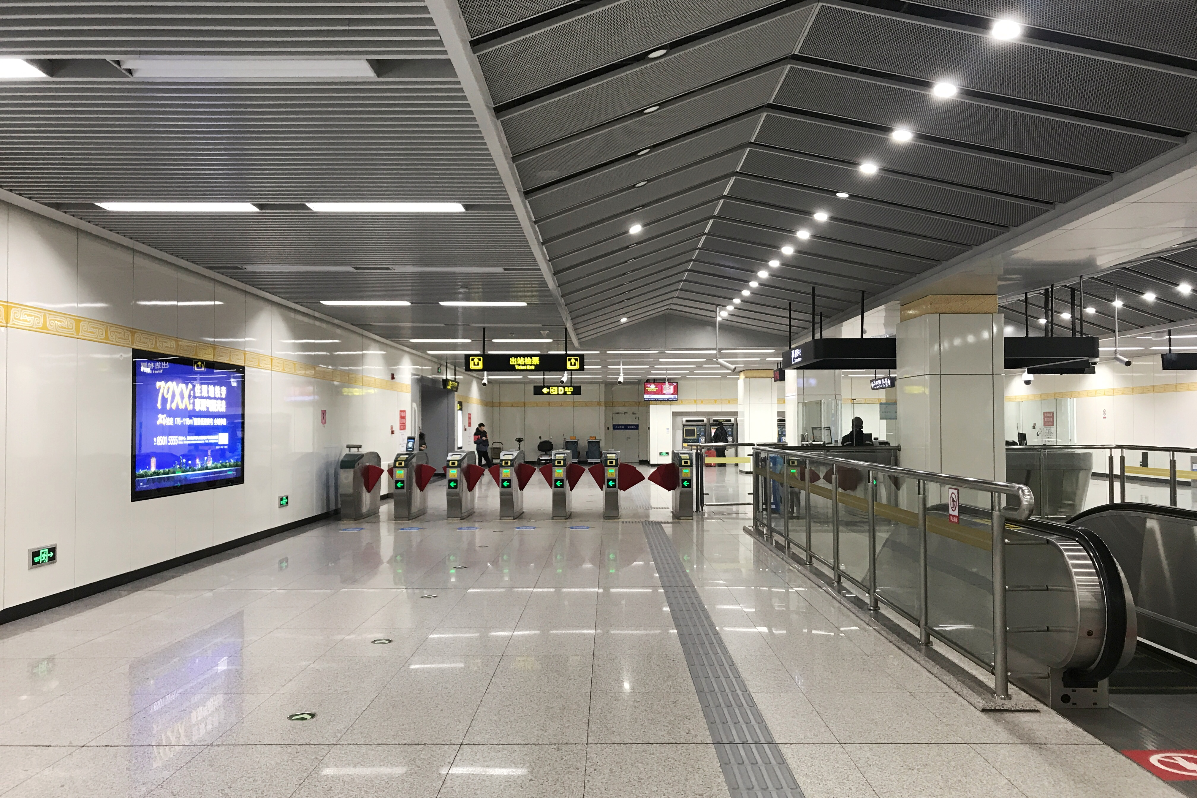 Concourse of Zhengzhou Metro Enpinghu Station